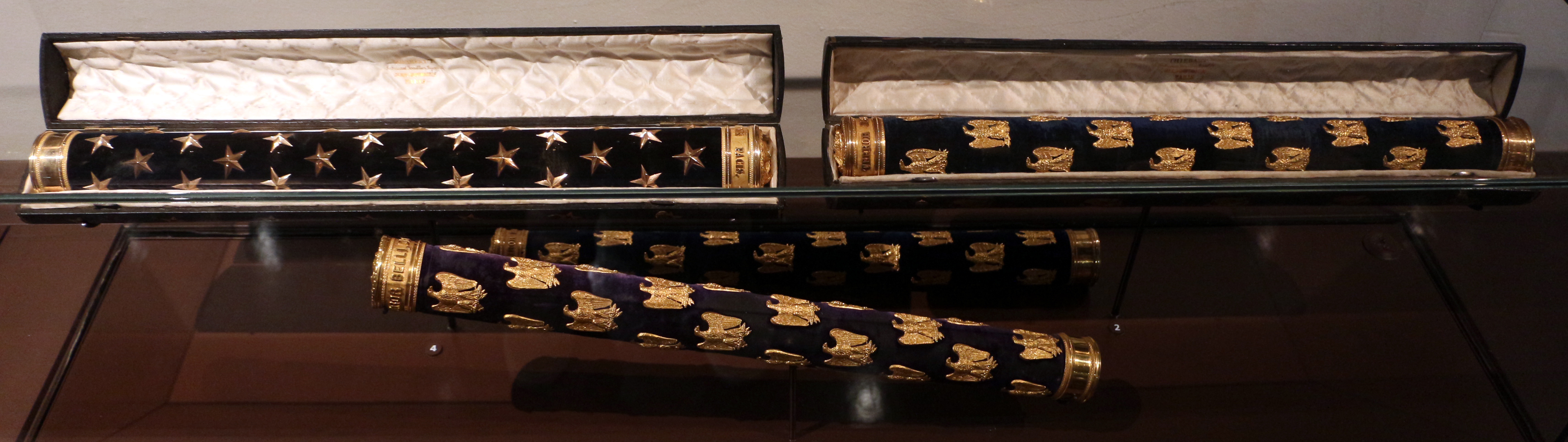 Collections of Musée de l'armée